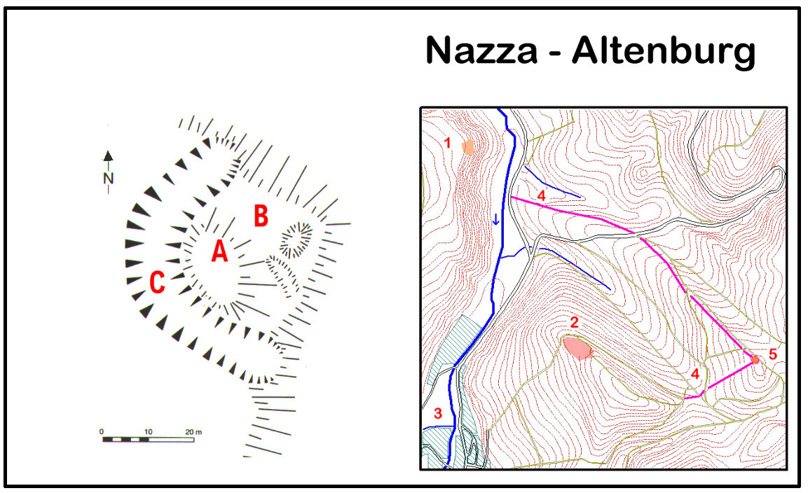 Map of the castle Altenburg in Nazza village.